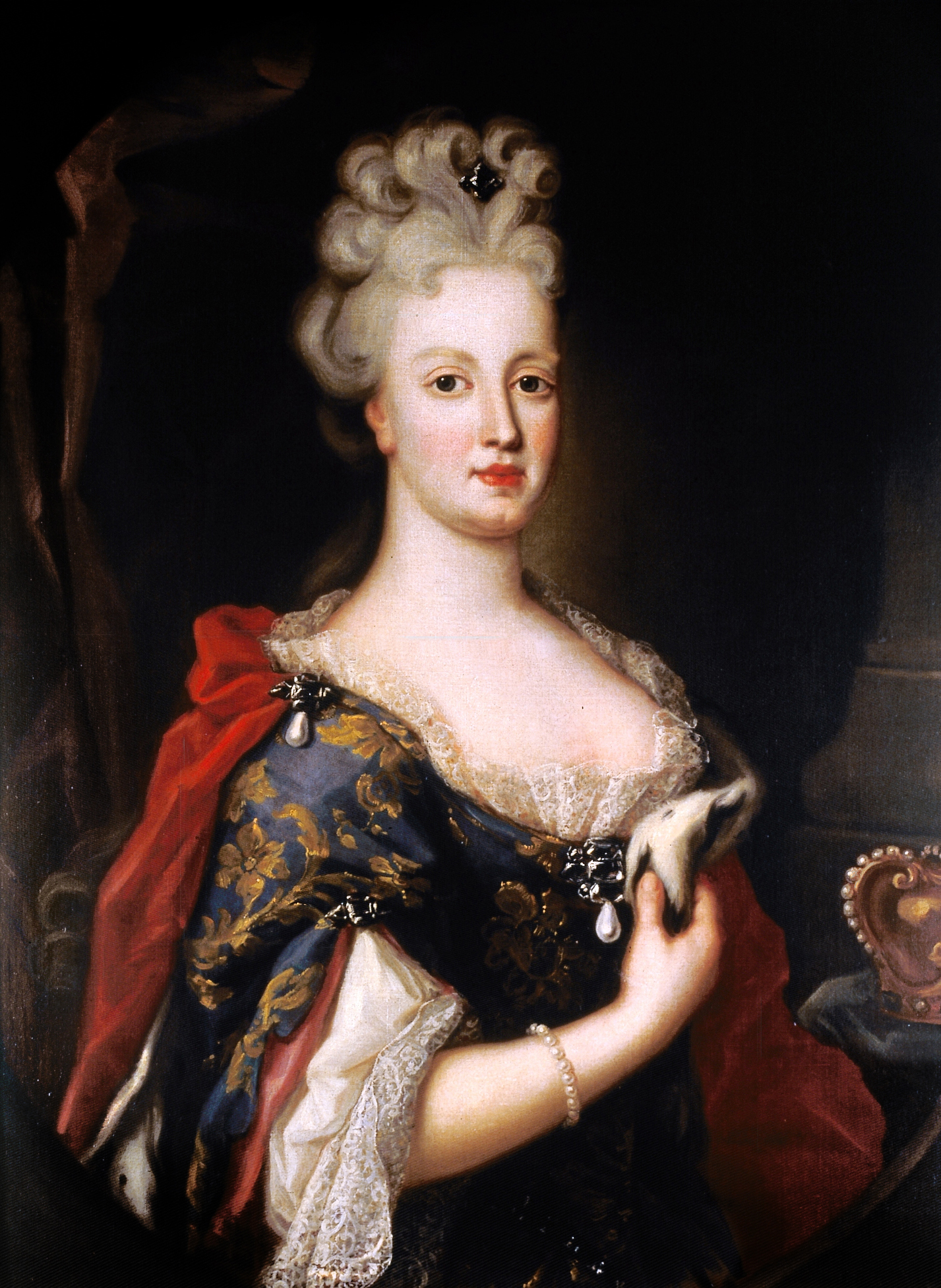 Queen Maria Anna of Austria (1683-1754), née Maria Anna von Österreich, queen consort of John V of Portugal.